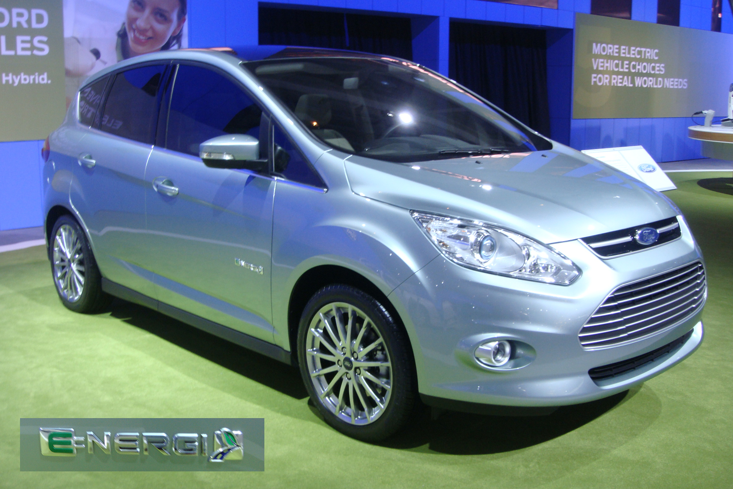 Ford C-Max Energi plug-in hybrid electric car {PHEV) exhibited at the 2011 Washington D.C. Auto Show. Badging inset edited with Photoshop by the author using pic taken from the same car.